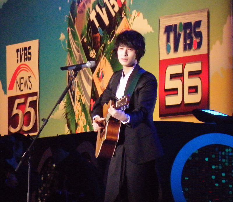 Yen-j performed in Taipei New Year's Eve Party 2011